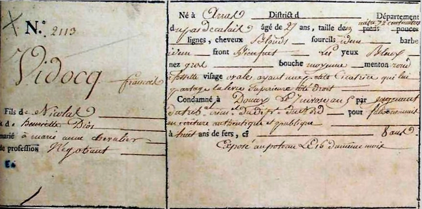 Document concerning the sentence of Eugène François Vidocq because of forgery to eight years of hard labor in the Bagno of Brest, 27th December 1796